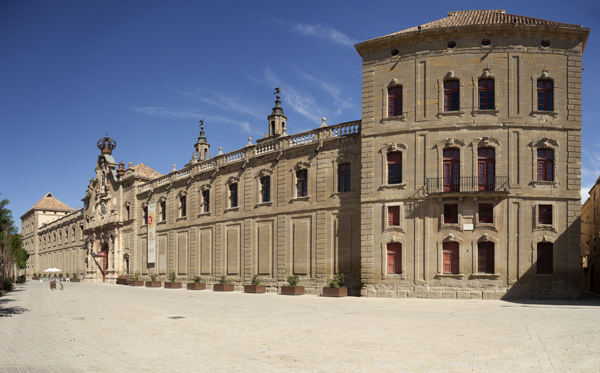 Universitat; Cervera, Catalunya, Lleida, Spain; façana; Ref: PM_086854_E_Cervera; Universitat; Photographer: Paul M.R. Maeyaert; © Paul M.R. Maeyaert; ; Cultural heritage; Europeana; Europe/Spain/Cervera